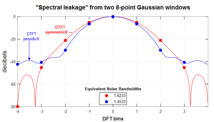 Comparing the discrete-time Fourier transforms of "symmetric" and "periodic" windows. The Gaussian form (σ = 0.4) was chosen for its non-zero end-points, one of which is discarded in the periodic version.